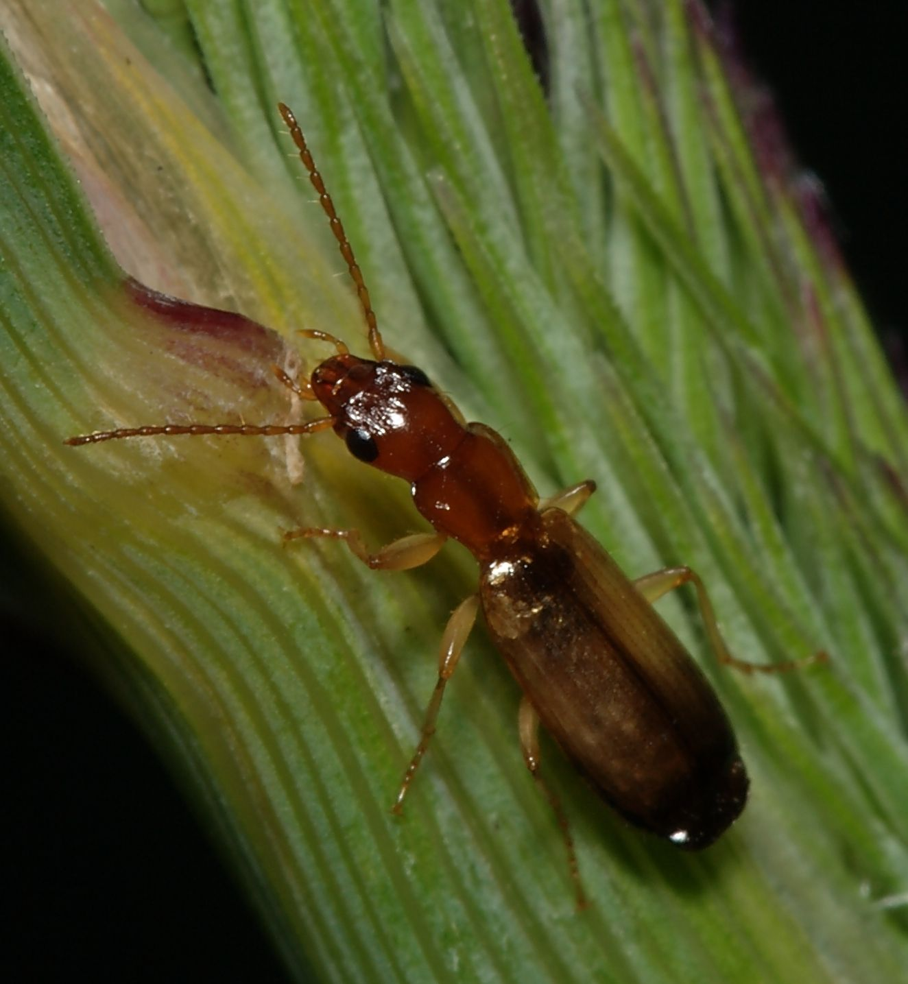 Paradromius linearis from Cologne, Germany.